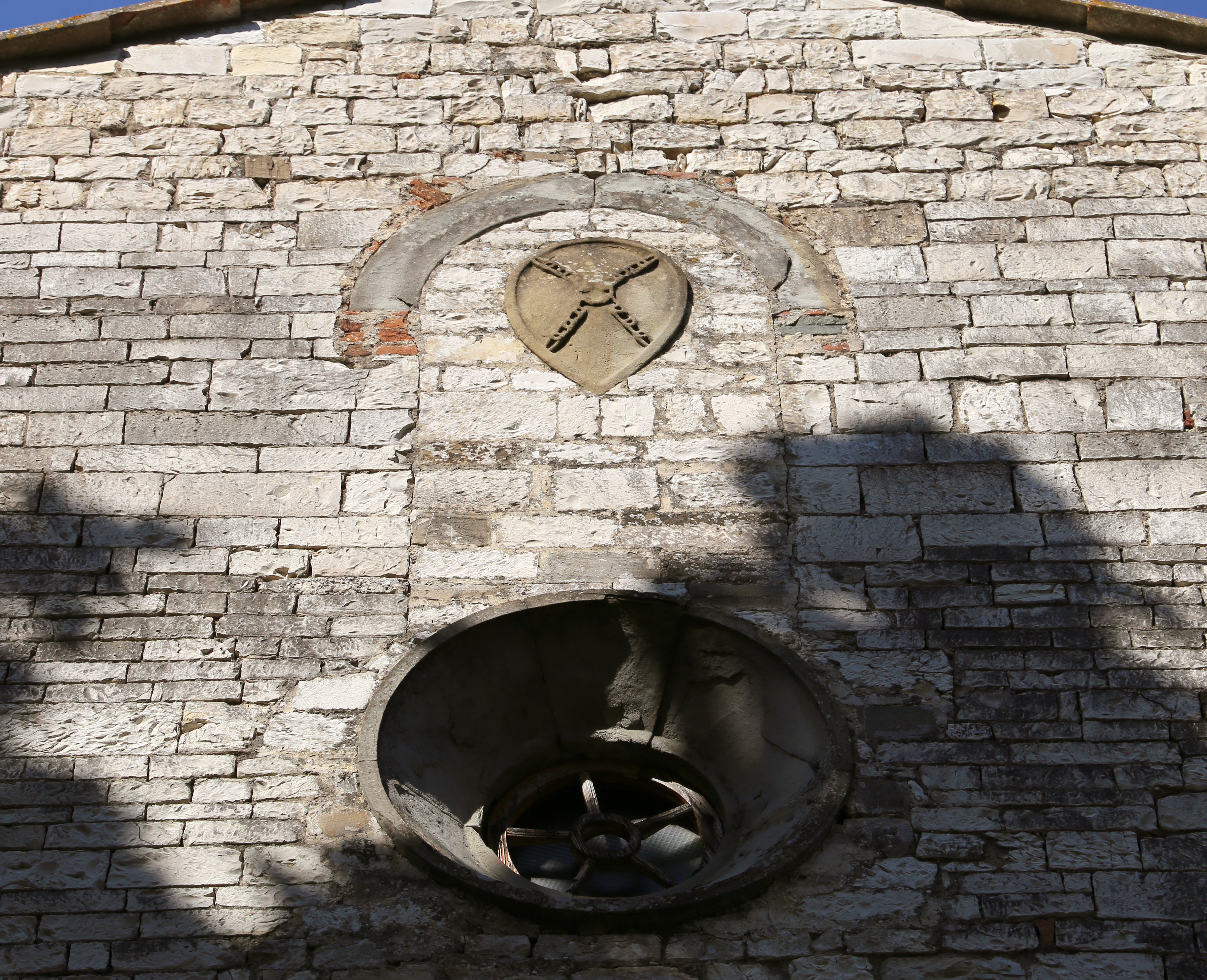 San Lorenzo a Miransù